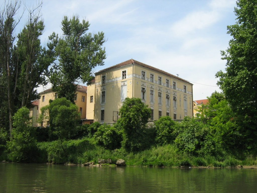 Building in Visoko built during Austrohungarian rule in Bosnia. Pseudo-Moorsih style